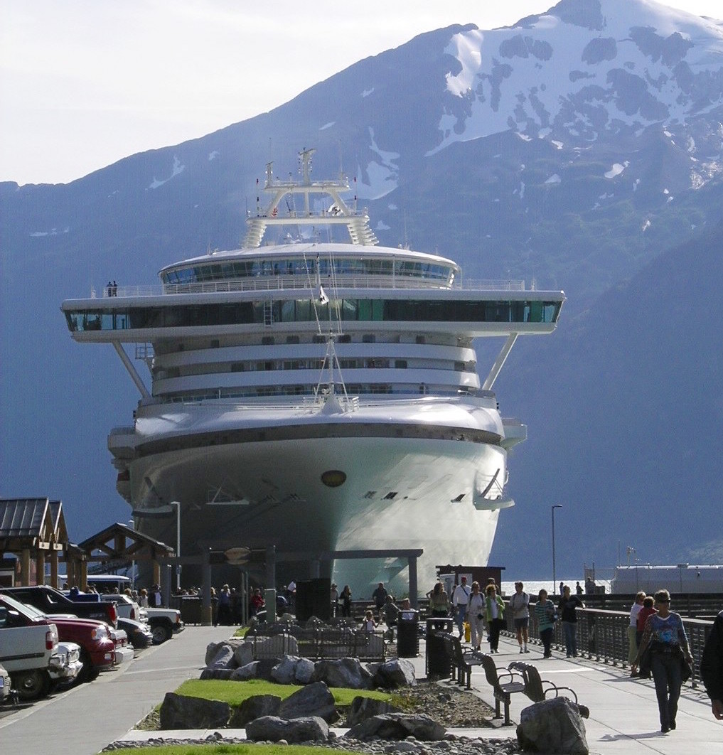 Zuiderdam ship carries 1916 passengers